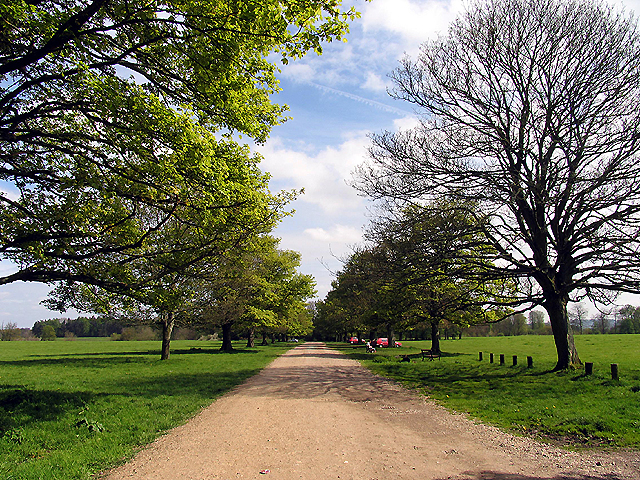 Hungerford Common. This is a view of the lane that runs south east across the grid square and is situated in the north east section of the grid square. The picture was taken somewhat south east of the parking, looking southeast.